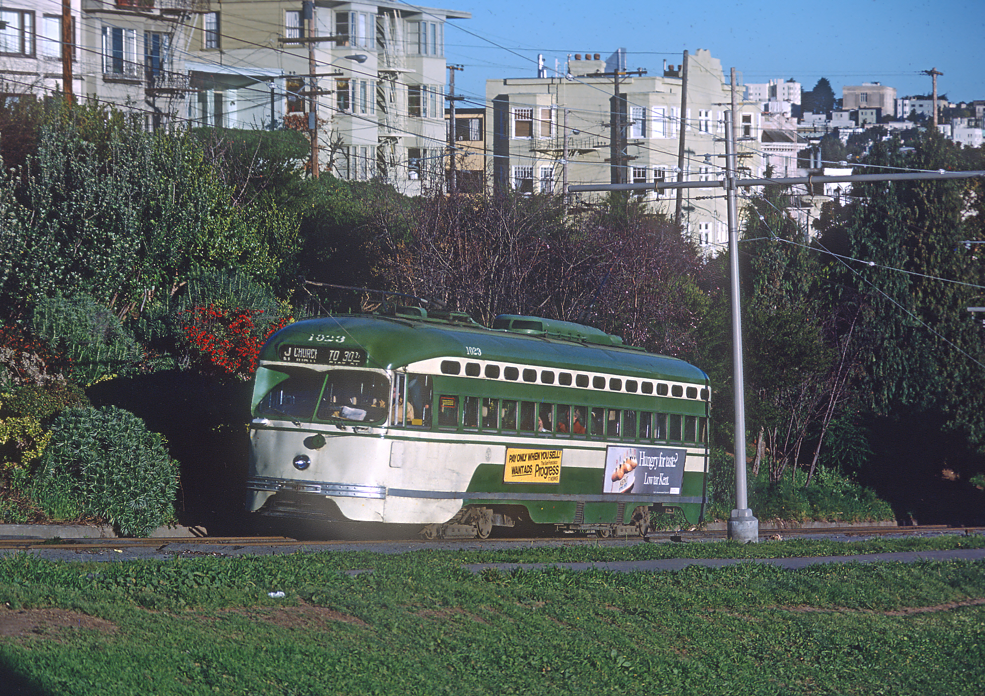 A Roger Puta Photograph This file comes from the Roger Puta collection, which passed to Mel Finzer. They were scanned and posted by Marty Bernard, are in the Public Domain. Attribution to "Roger Puta" is not required for a PD image, but should be done as a matter of courtesy to a major Commons contributor. Mel Finzer, the heirs of this work's copyright holder (usually the creator) have released it into the public domain. This applies worldwide. In some countries this may not be legally possible; if so: The heirs of the creator grant anyone the right to use this work for any purpose, without any conditions, unless such conditions are required by law. See This work is free and may be used by anyone for any purpose. If you wish to use this content, you do not need to request permission as long as you follow any licensing requirements mentioned on this page.